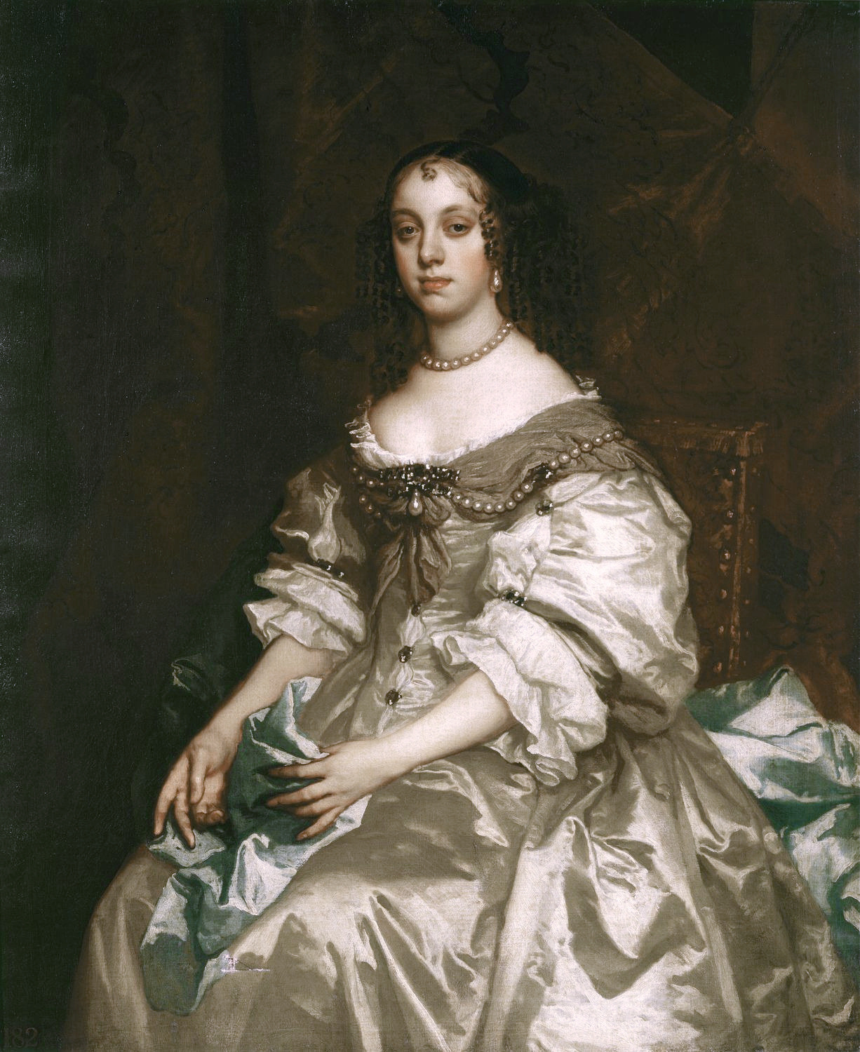 Portrait of Queen Catherine of Braganza (1638-1705)